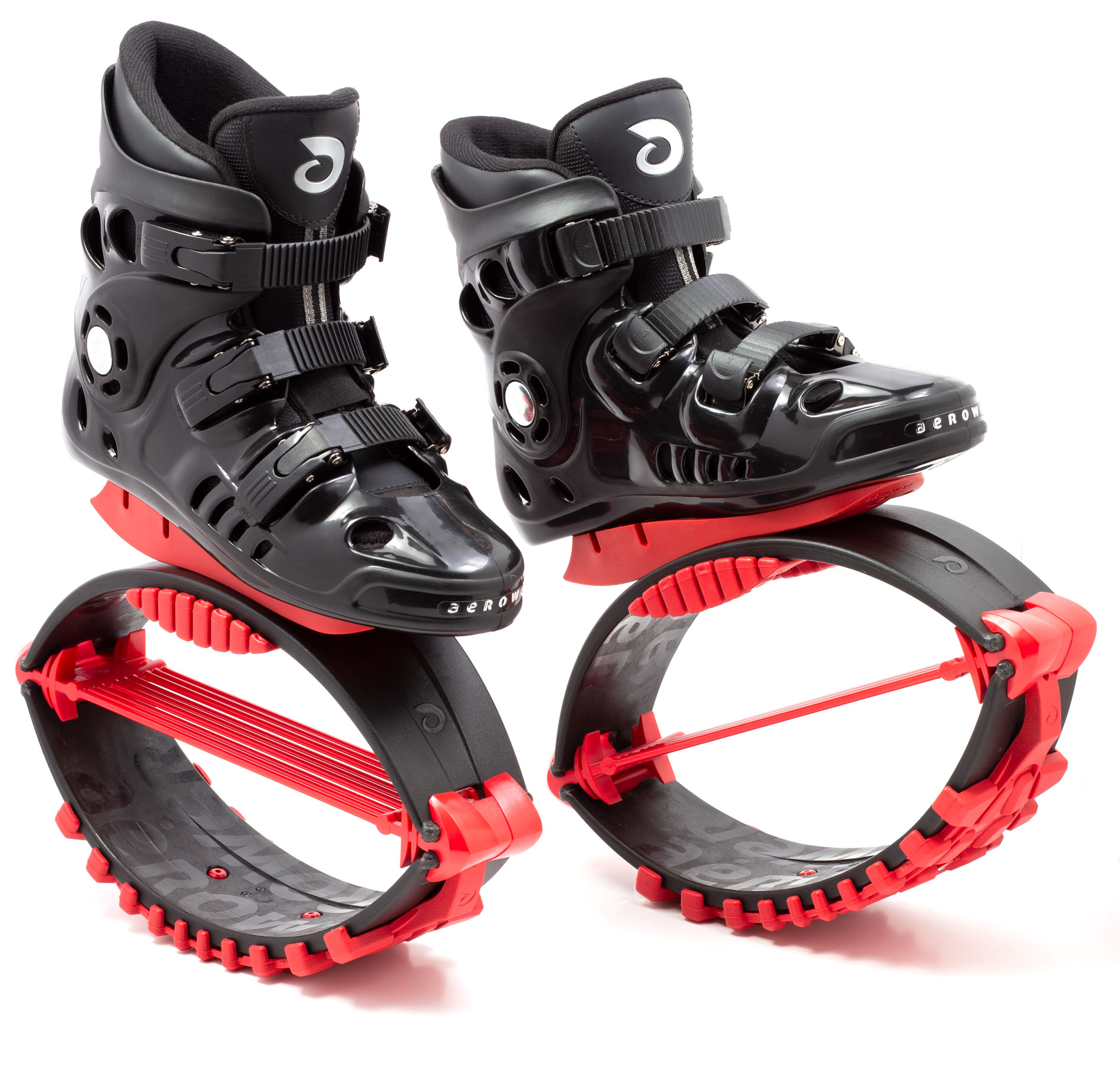 Jumpers are used to practice the discipline of the rebound exercise. Consisting of two opposing arches linked by elastic bands, the rebound system on the bottom of the shoe prevents the impact of each jump on the ground from being transmitted to your body and allows you to jump smoothly